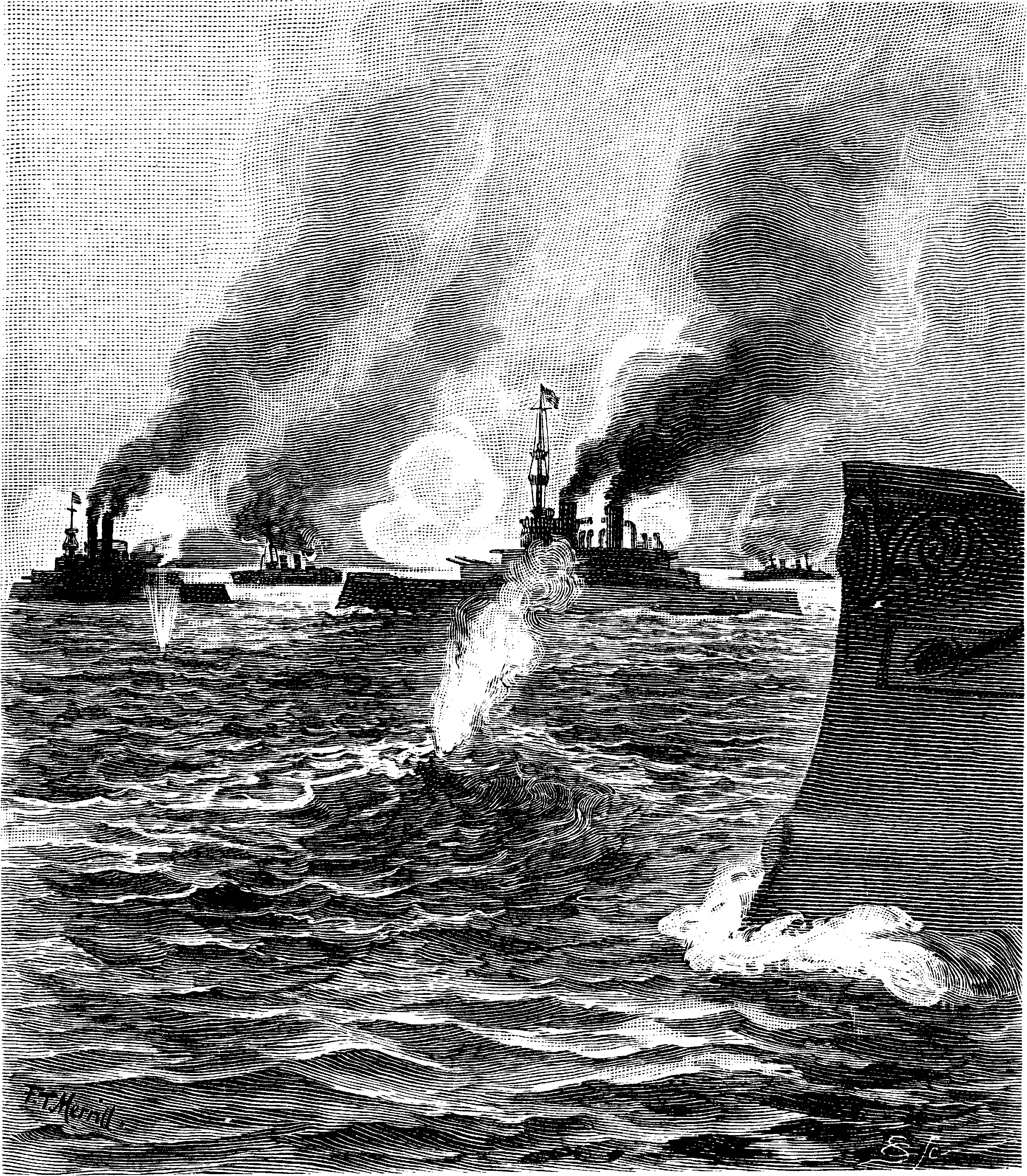 Battle of Manila.